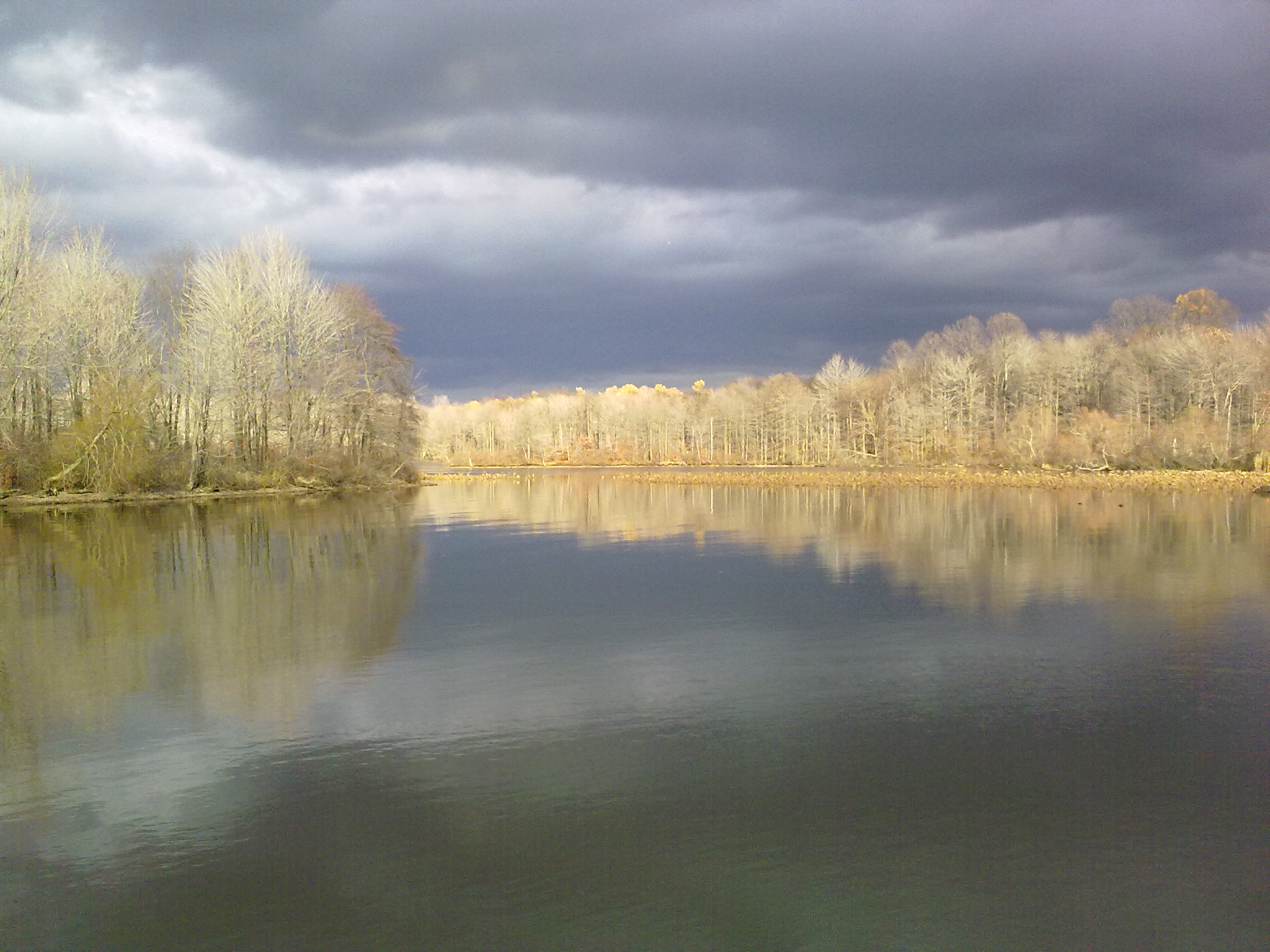 Picture taken by Nokia 5800 Express Music.